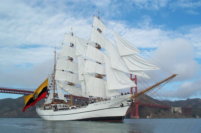 Training ship Guayas in San Francisco,USA